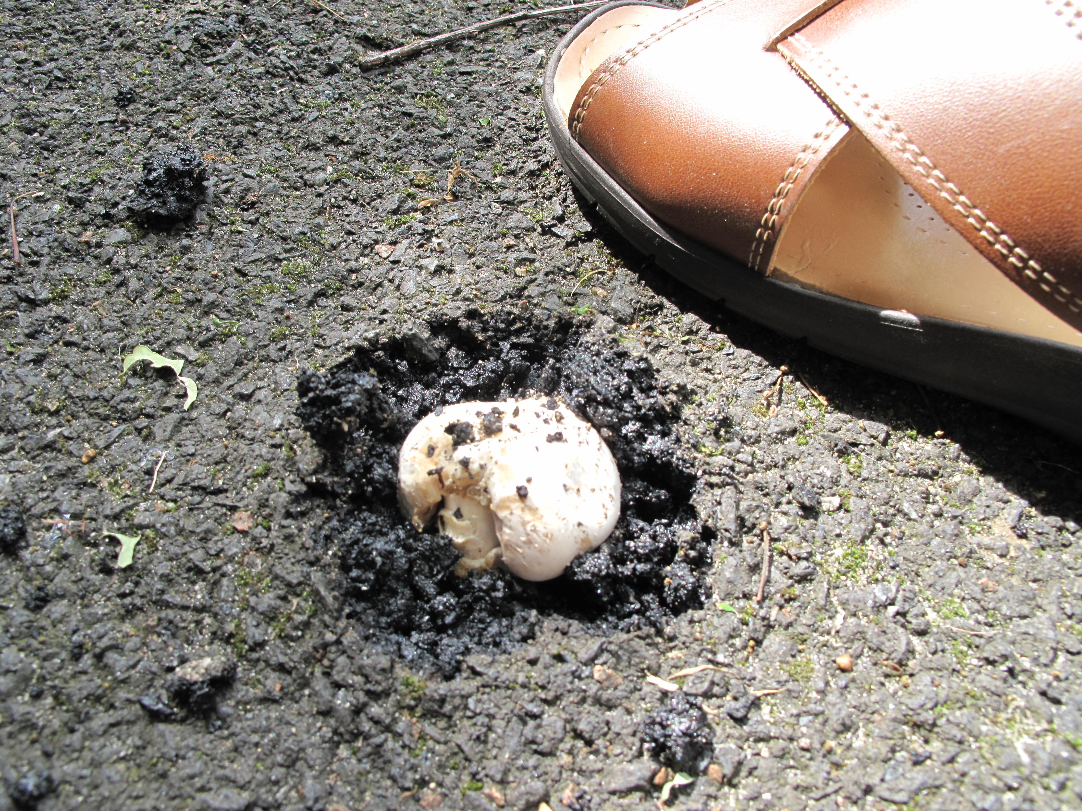 Mushroom Agaricus bitorquis popping up through macadam in the region of Paris (Vaires-sur-Marne)